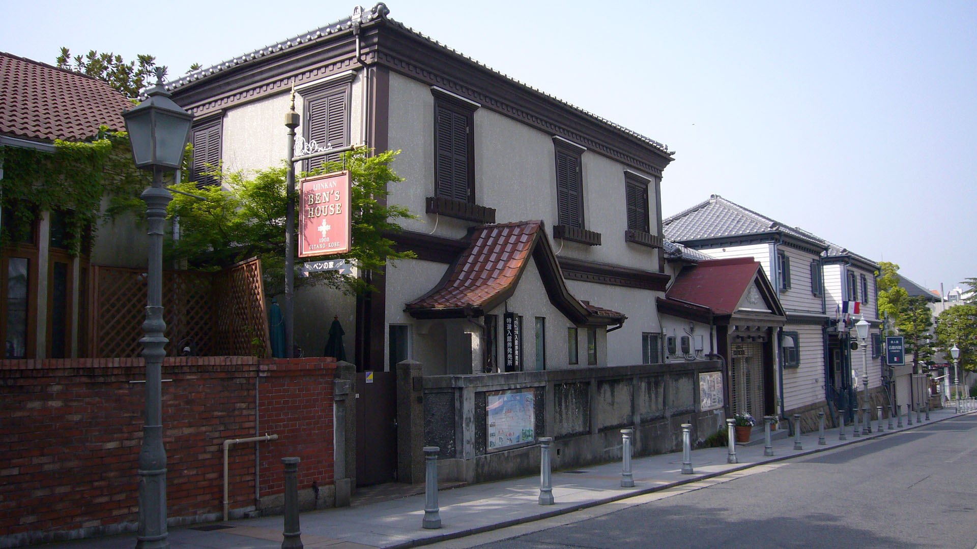 Ben's House in Kobe, Japan